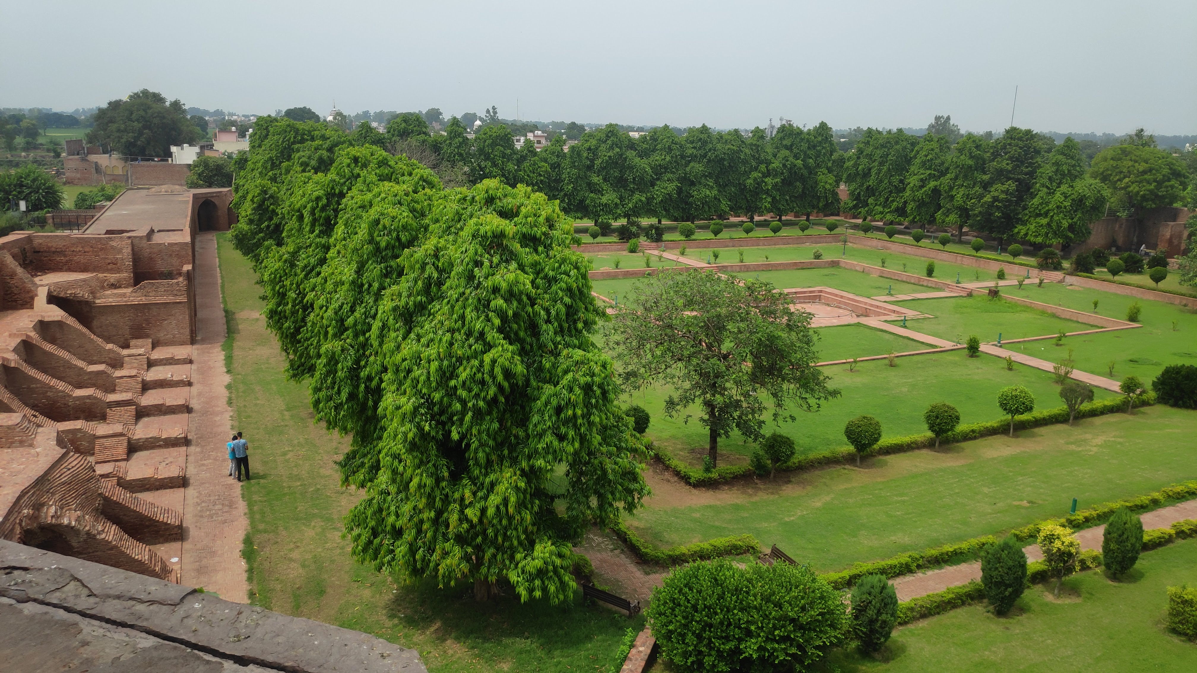 sheikh chilli tomb garden view